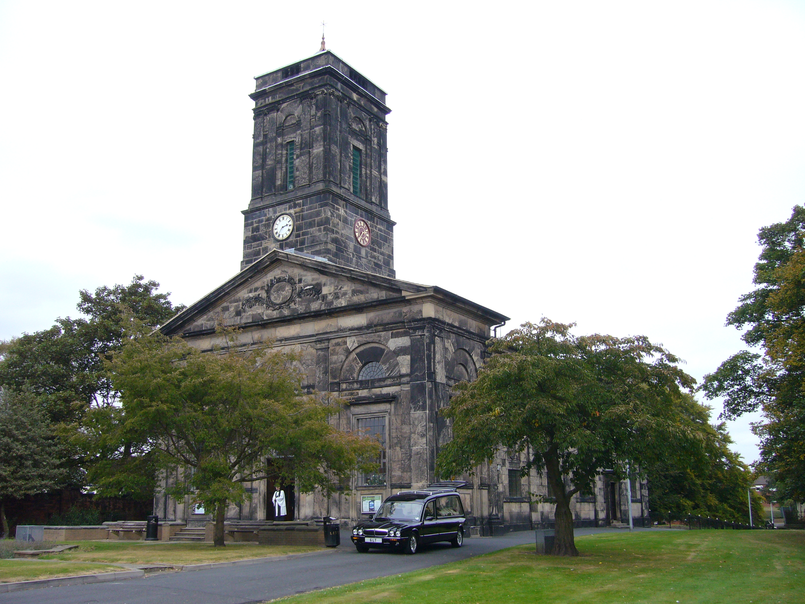 "All Saints" church (C of E) in the centre of Wellington, Shropshire. Built 1790.